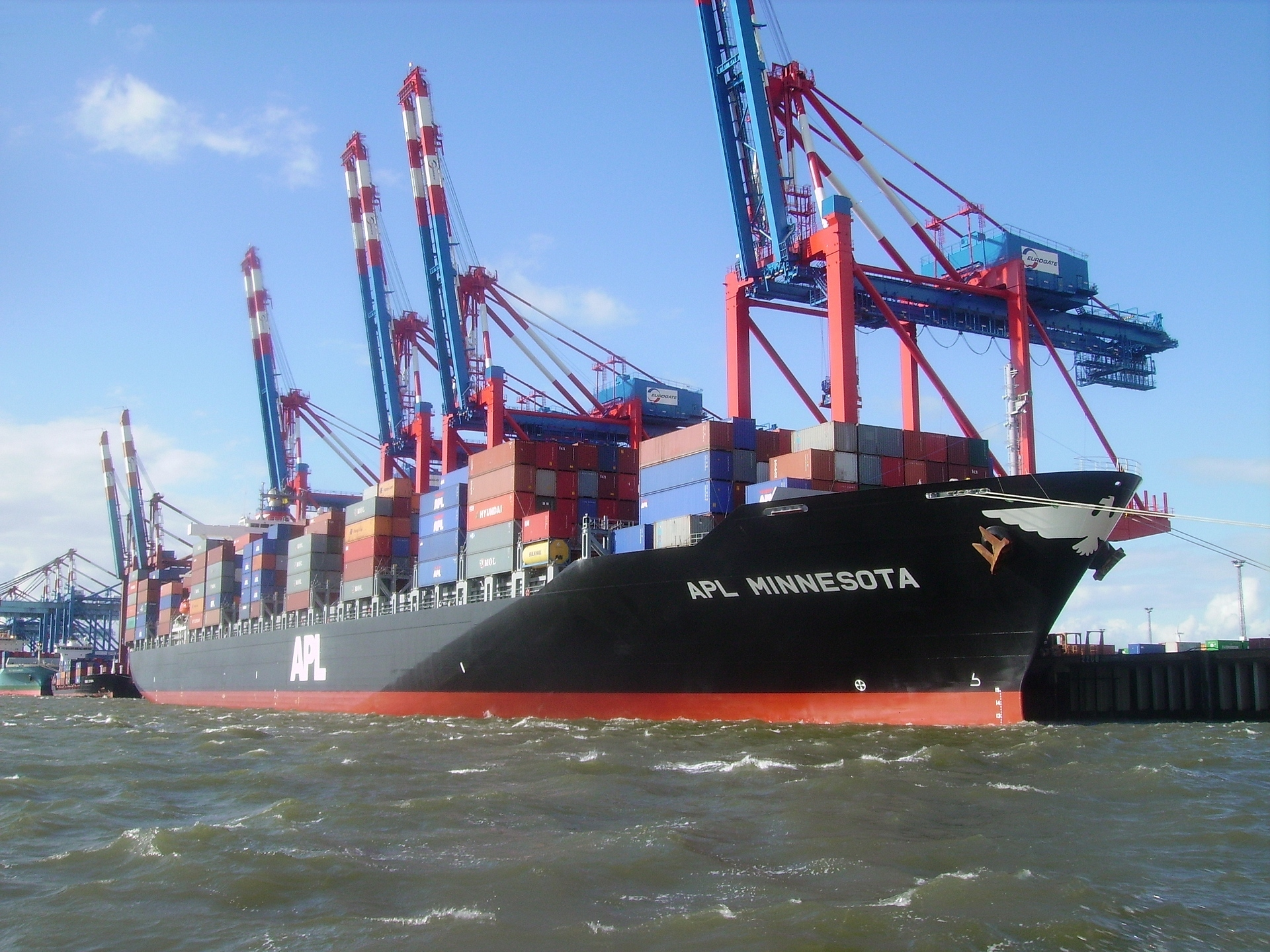 The container ship APL Minnesota from Singapore-based American President Lines at the container terminal in Bremerhaven, Germany